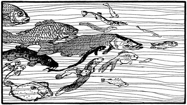 Illustration by Otto Ubbelohde to the fairy tale The Sole